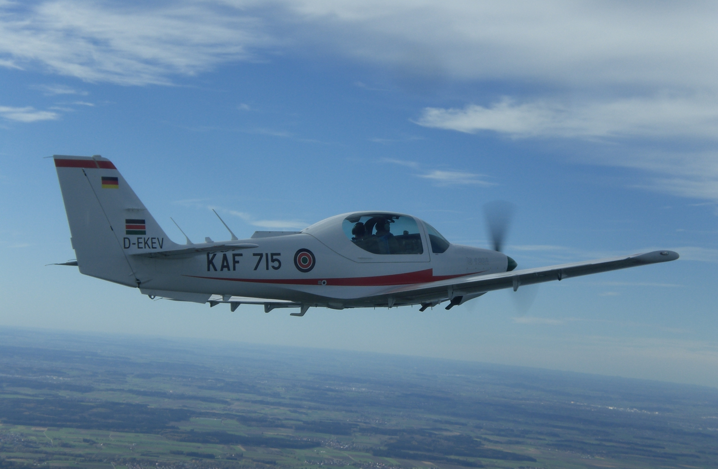 One of six G 120A of the Kenya Airforce